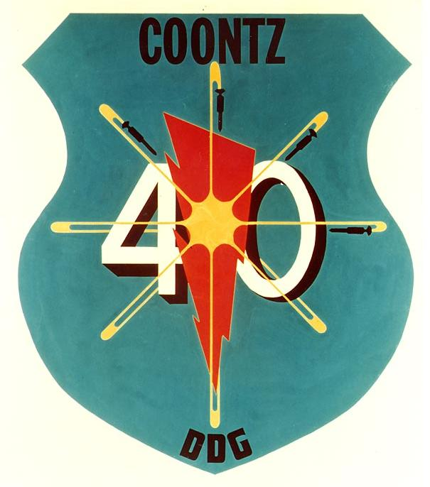 Insignia of the U.S. Navy guided missile destroyer USS Coontz (DDG-40).